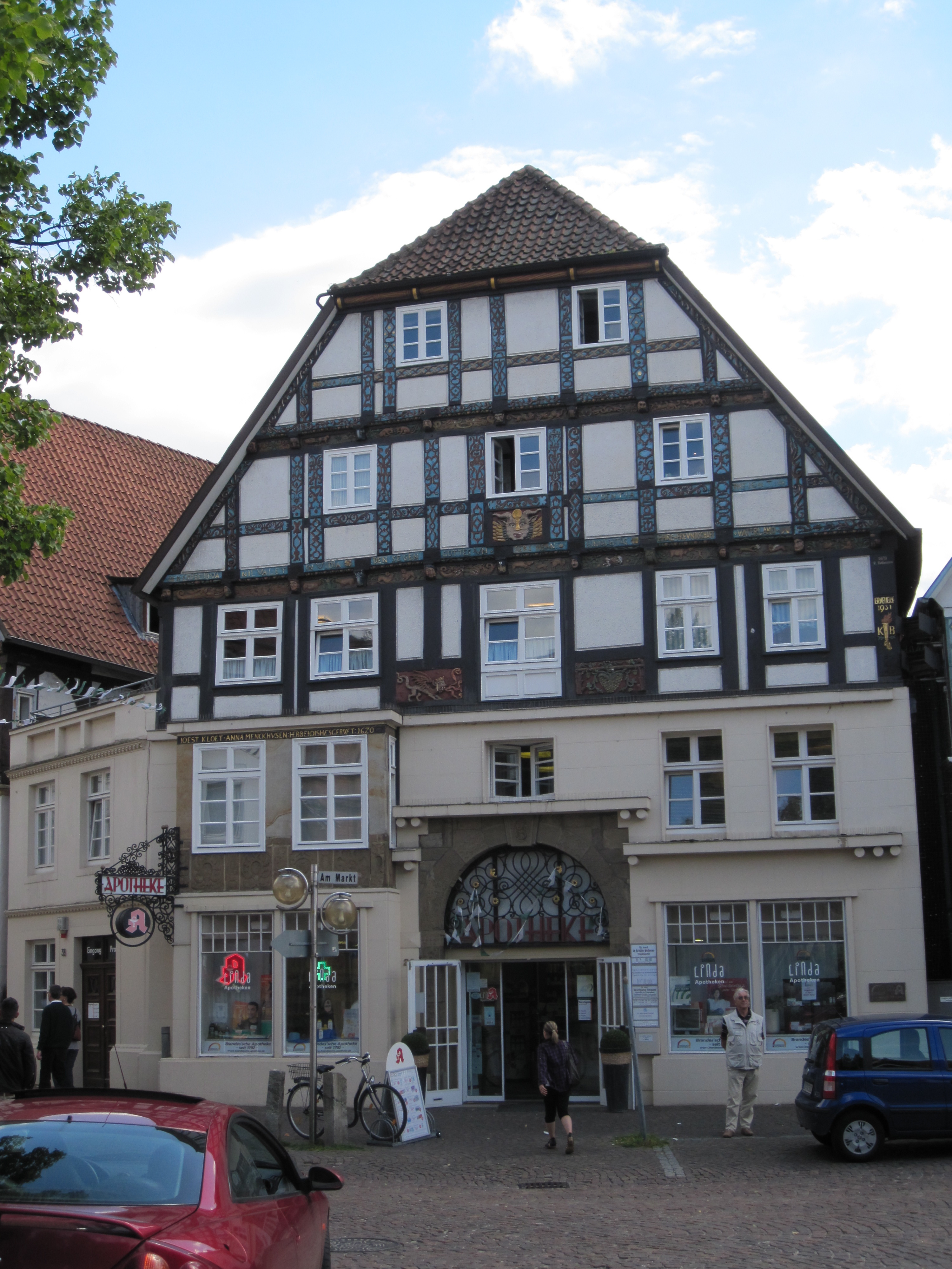 Germany - North Rhine-Westphalia - Lippe - Bad Salzuflen - Am Markt 36: "Brandes'sche Apotheke" (pharmacy)